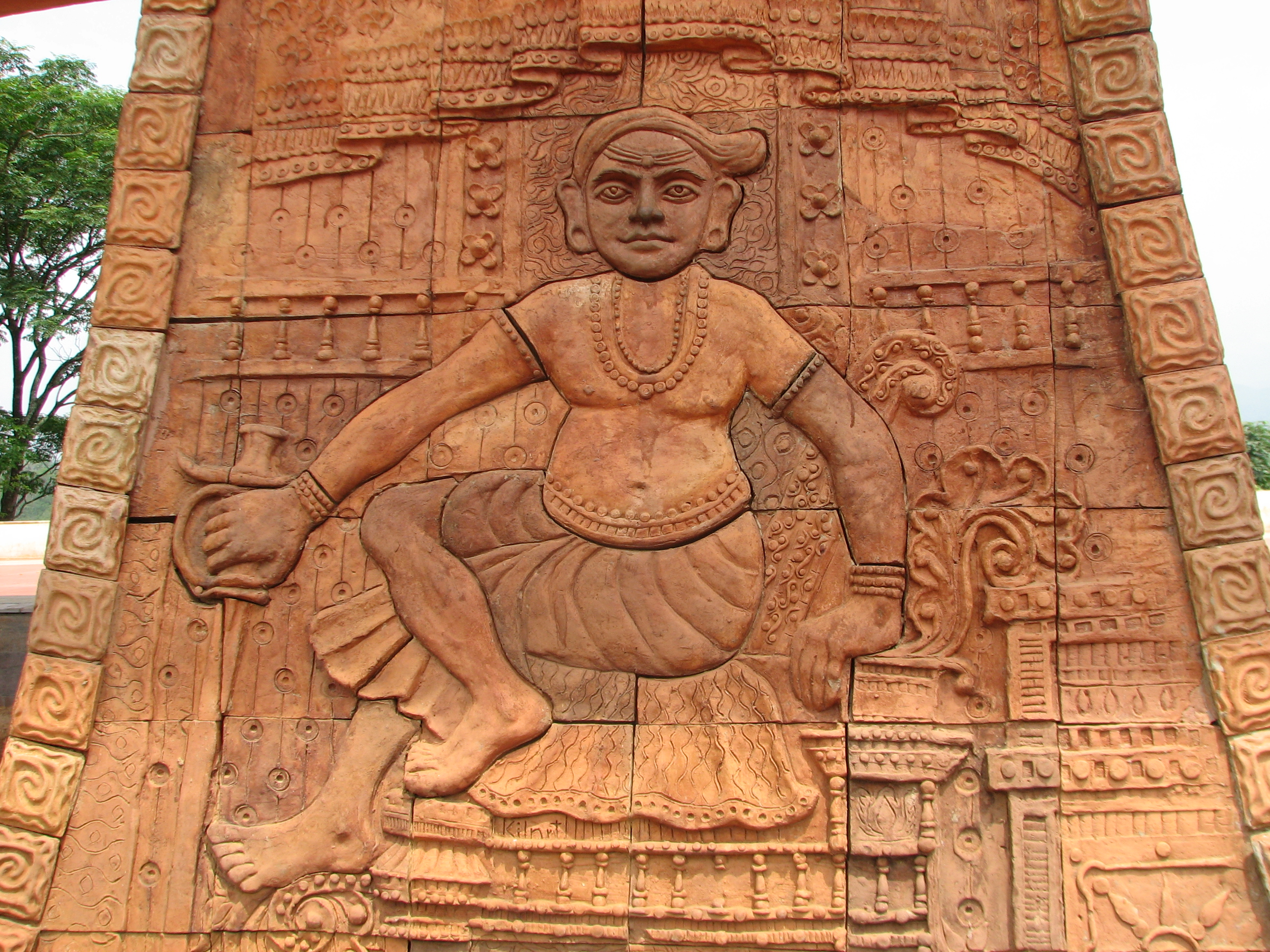 Veera Pazhassi Raja - an artist's view on a laterite wall.